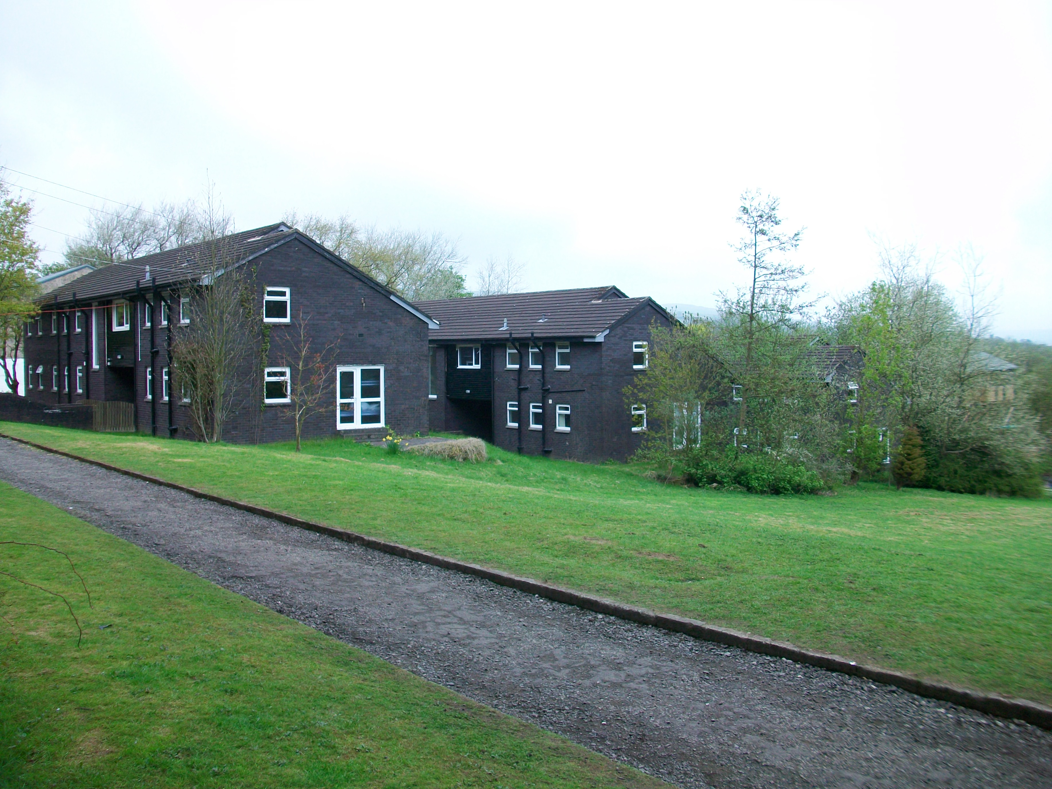 3 blocks are sited next to the castle and these too date back to the site's use as a school.